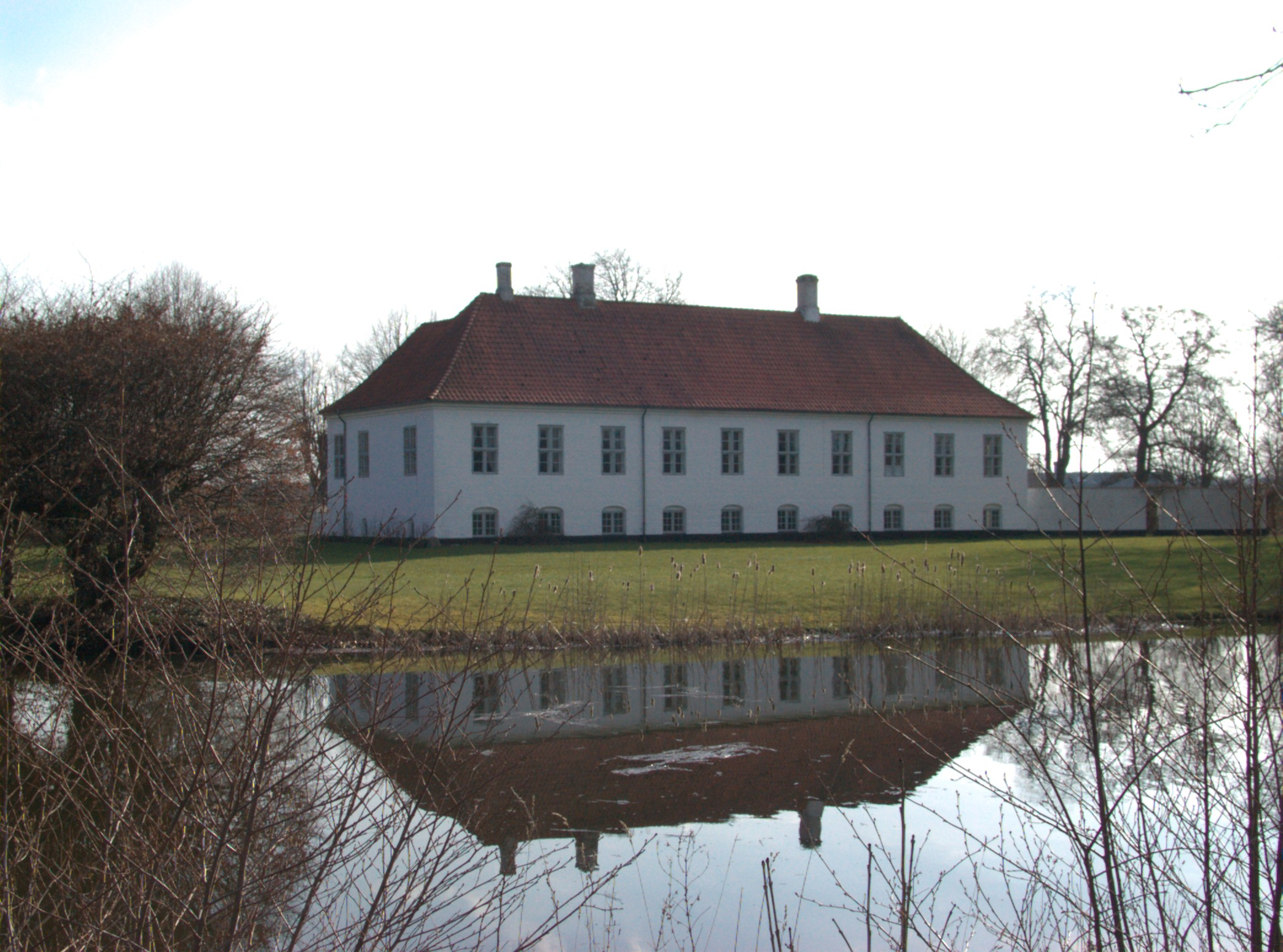 Sandagergård, manor house on Northern Funen. Listed building